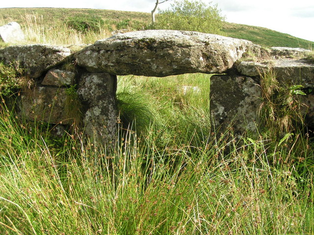 Black Tor Blowing House. The remains of a Blowing House on the East bank of the River Meavy. Situated just below Black Tor, this building was used to smelt tin from its ore. It probably dates from the 13th century and would have had a water wheel powering a set of bellows. The bellows provided a draught to heat a furnace packed with charcoal and crushed cassiterite (tin oxide) which was dug up from the surrounding valley. This example is unique in that it has the door lintel still in situ.